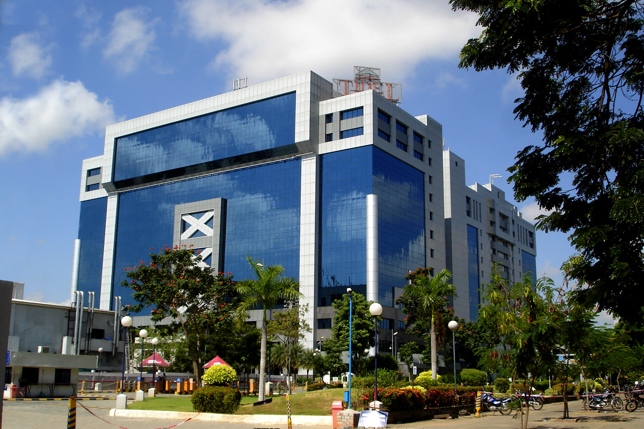 Front view of the Tidel Park in Chennai